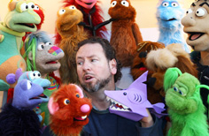 Marcus Clarke is here talking to a range of Puppets that he has also made.